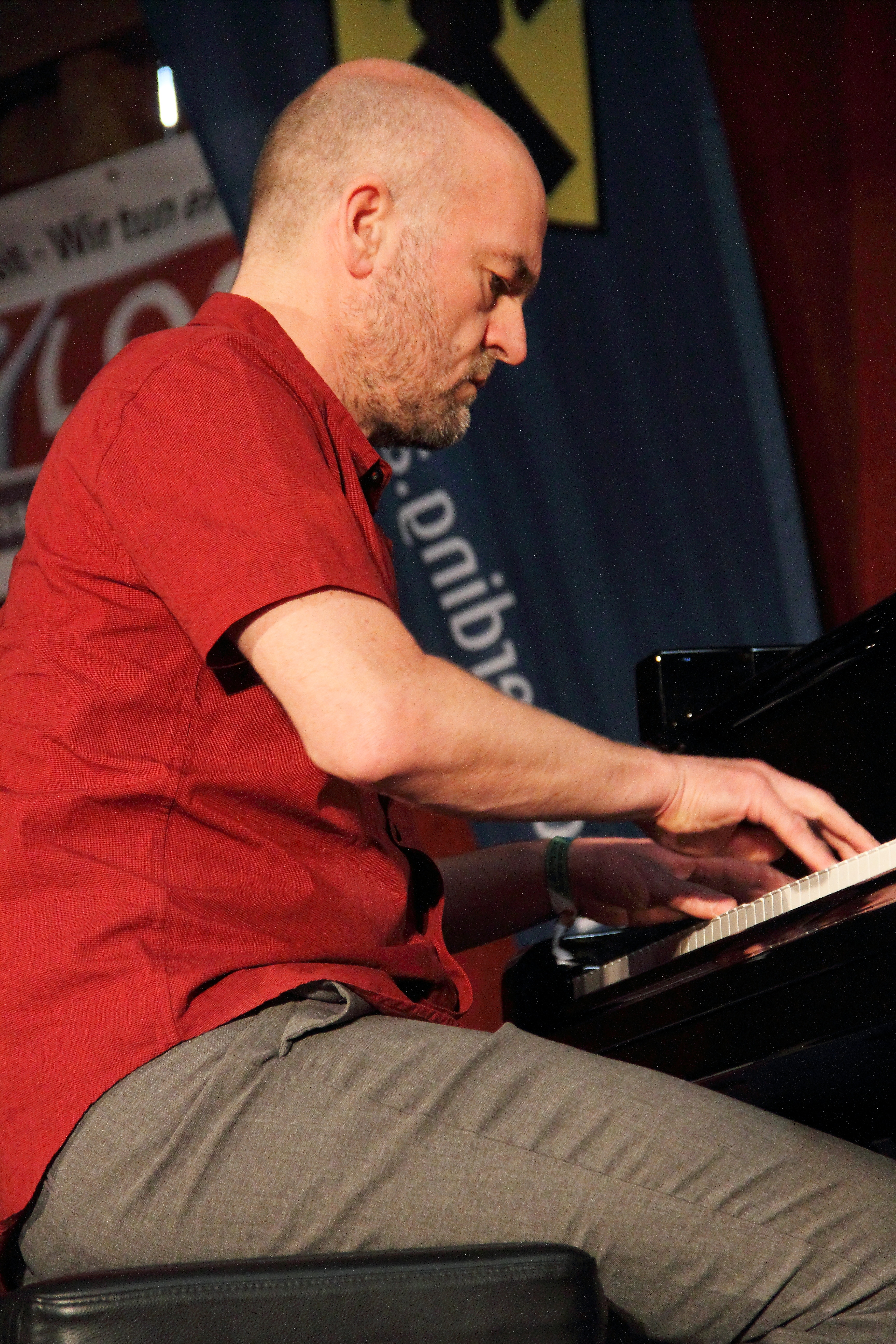 The Julian Siegel Quartet at INNtöne Jazzfestival 2018.